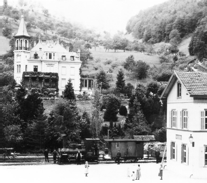 Station Waldenburg with locomotive 1 "Dr.M.Bider" and Villa Thommen. Picture around 1892